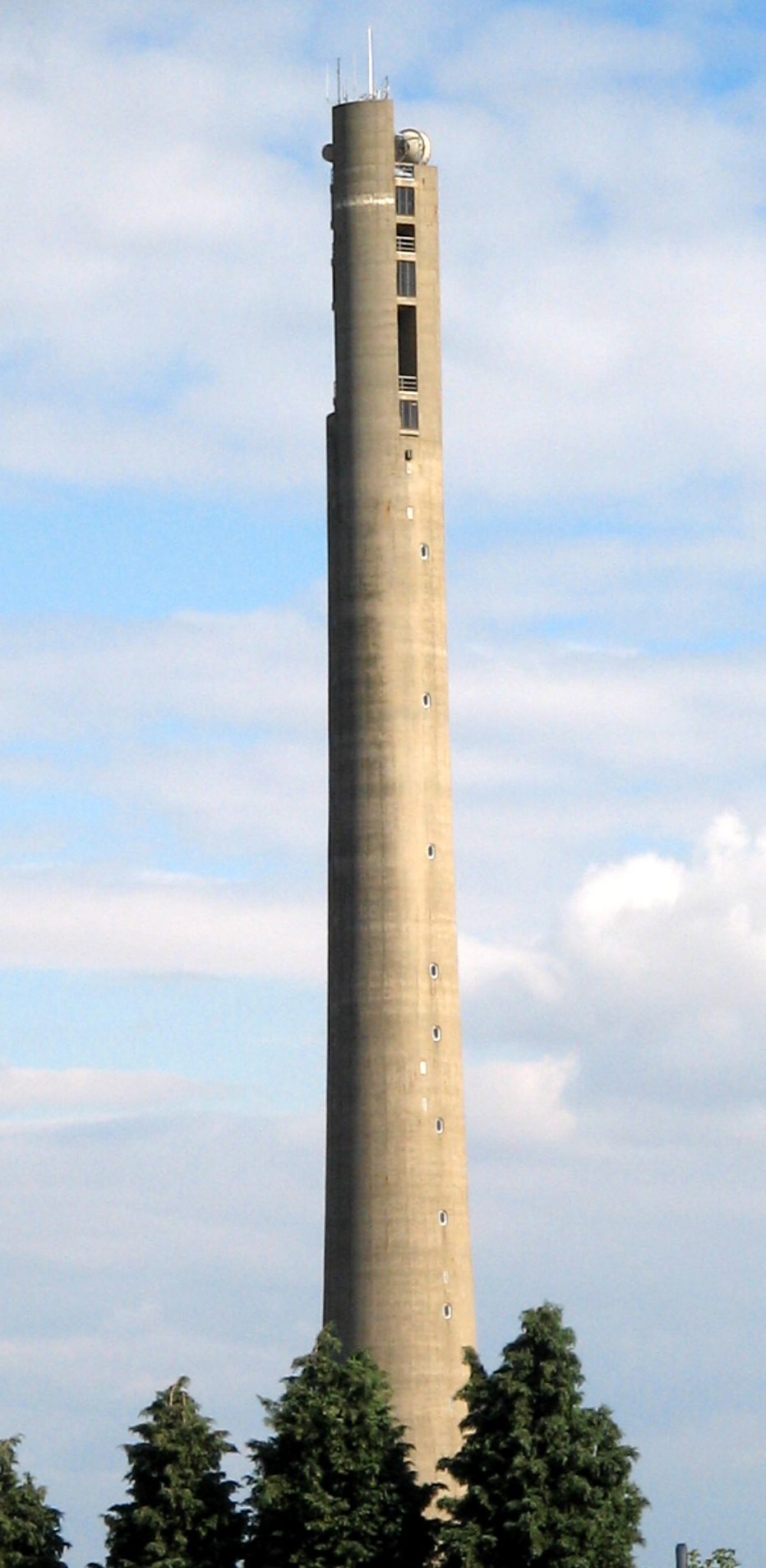 Express Lift Tower in Northampton. Photo by G-Man * Aug 2006